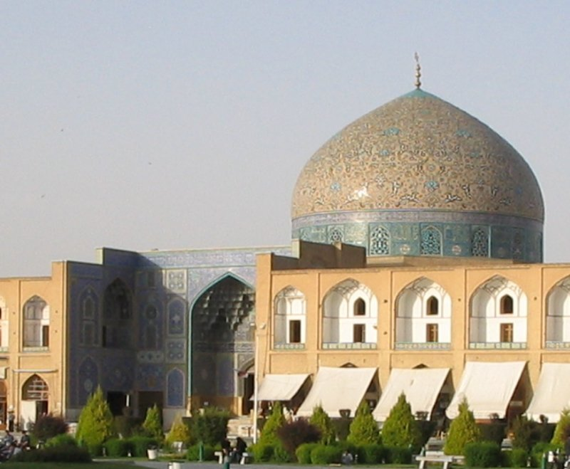 Masjed-e-Sheikh Lotfollah on Nagsh-e-Jahan square, Esfahan, Iran.